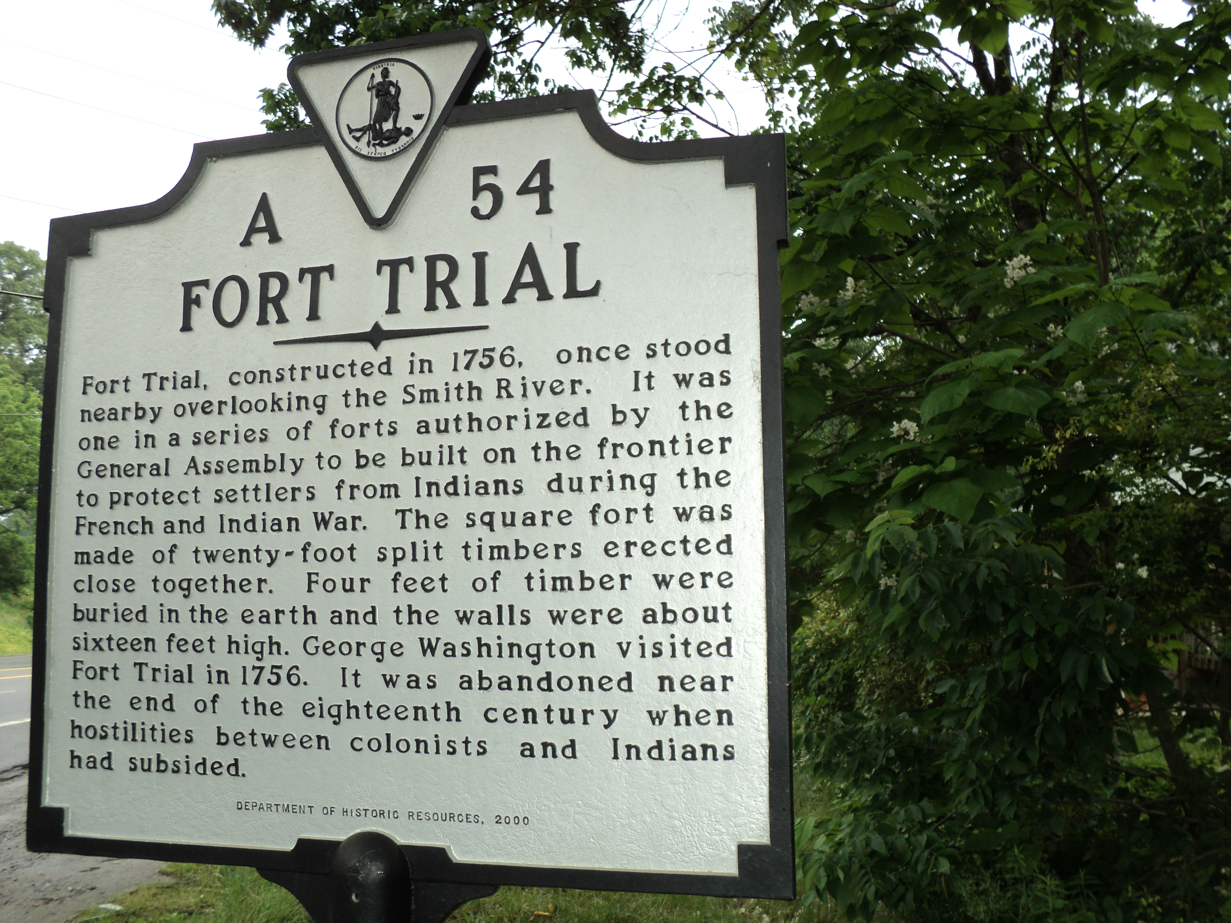 Virginia state historical marker for Fort Trial, near present-day Bassett, Virginia. Fort Trial was built in 1756 near the banks of the Smith River to protect against Indian raids during the French and Indian War. George Washington inspected Fort Trial in 1756, the same year it was built. It was abandoned near the end of the 18th century as hostilities between the colonists and the Indians abated.